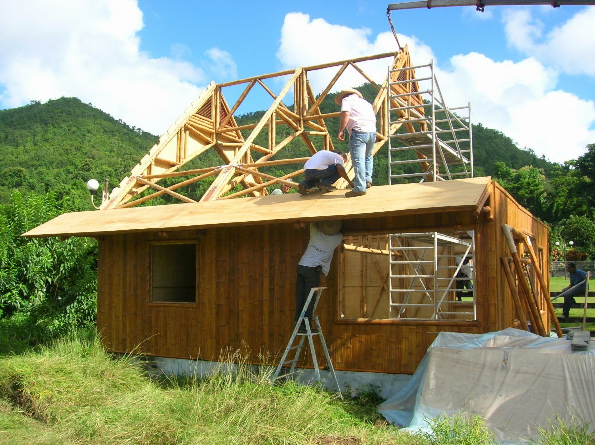 Construction of a prefabricated, certified earthquake and cyclone resistant building, made of 100% bamboo